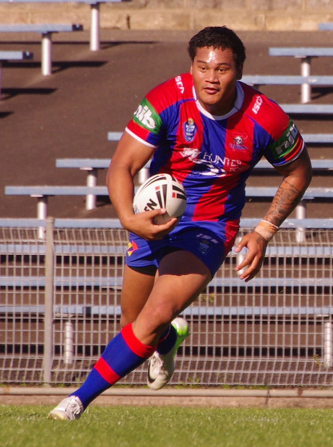 Joey Leilua